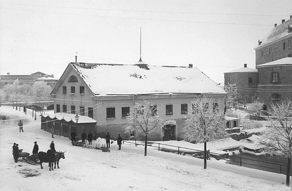 The old mill in Örebro, Sweden